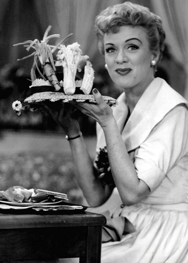 Photo of Eve Arden as Connie Brooks from the television program Our Miss Brooks. Connie made the remark that she would eat her hat if biology teacher Mr. Boynton would ever take her out and pay all of the check. He did and so she's preparing to eat an edible one.